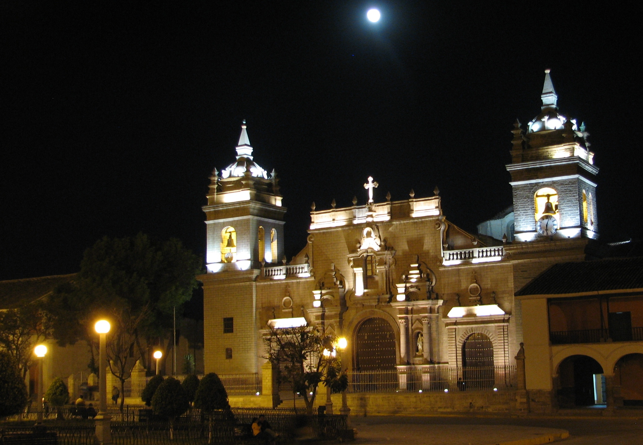 Ayacucho church by night, Ayacucho, Peru.